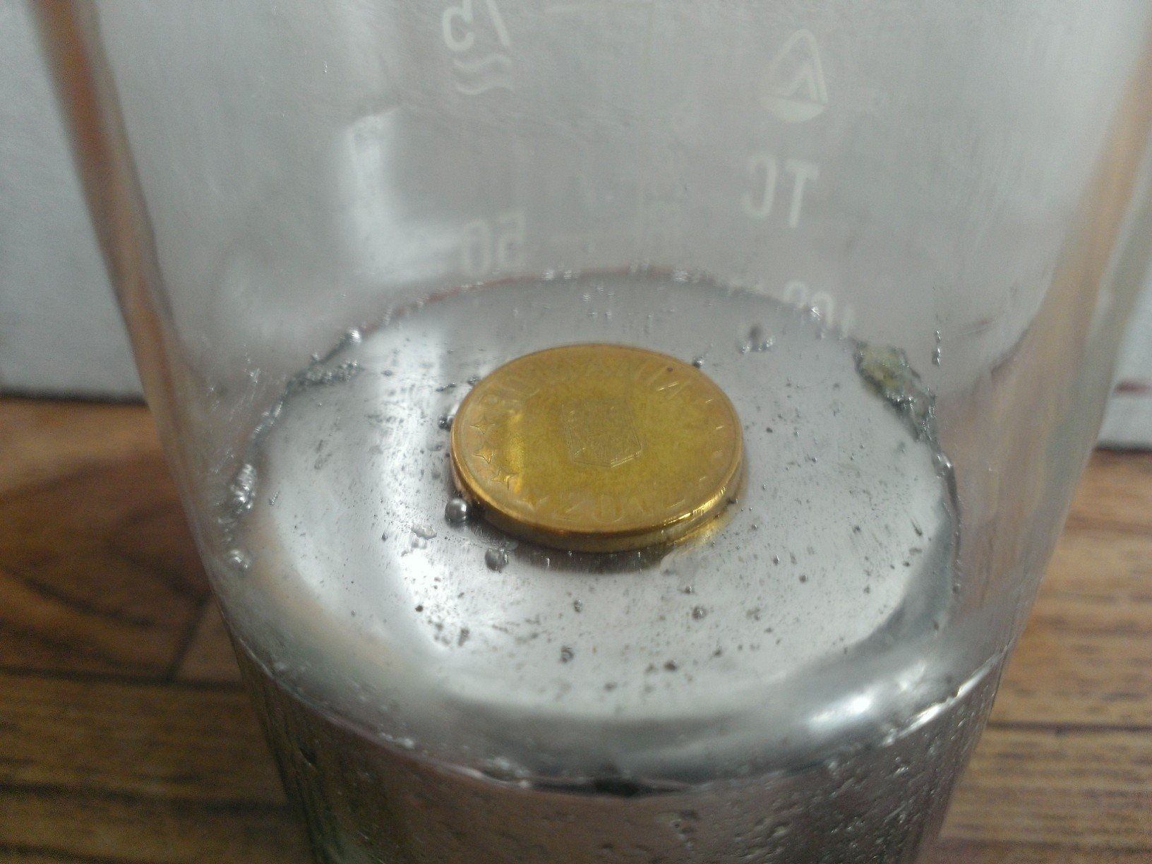 A 50 de bani coin (0.5 RON) (coin density ~ 8.4 g/cm3) floating in mercury due to its lower density according to Archimedes' Principle, showing the buoyancy and the surface tension